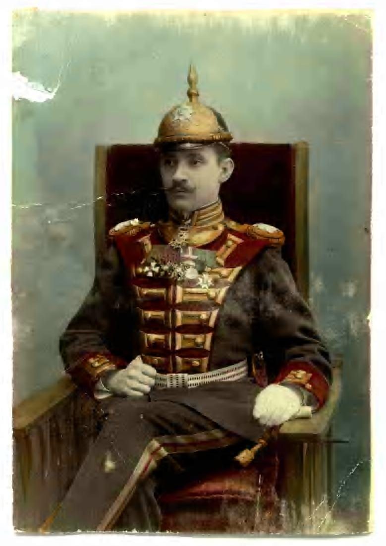 Nikolai Gantimurov, officer in russian army